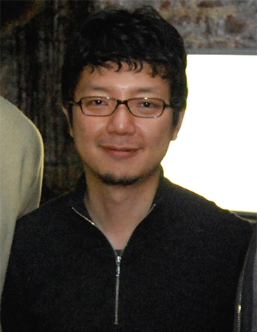 Video game designer and producer Jun Takeuchi (Capcom) at a Lost Planet 2 press event. Camera: Nikon D40X License on Flickr (2011-01-31): CC-BY-SA-2.0 Flickr tags: 2010, London, Capcom, Lost Planet 2, press, event, Jun Takeuchi